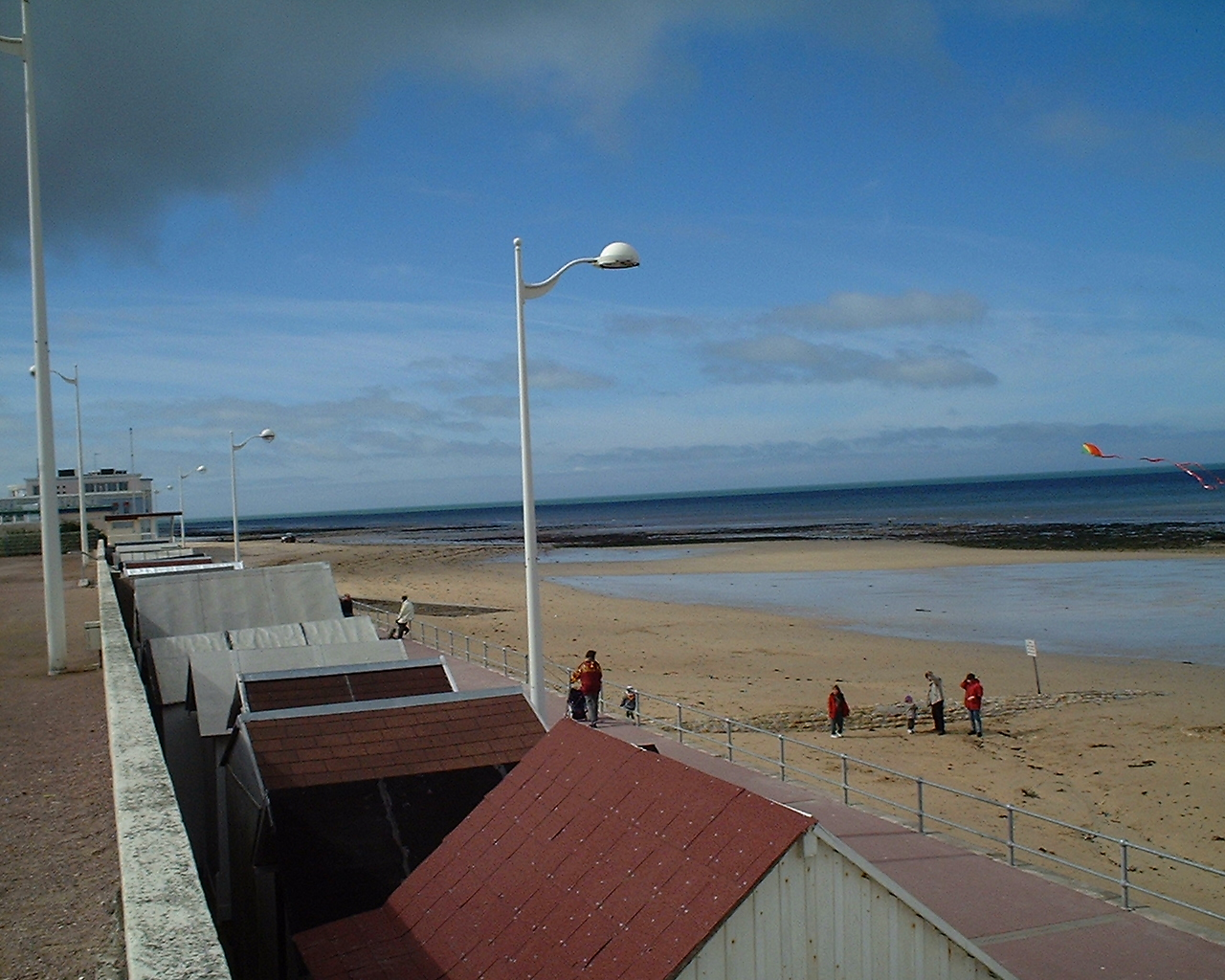 Luc sur Mer beachfront